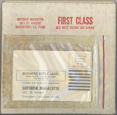 Reusable mailer used for the Softdisk disk magazine around the time of its founding in 1981. Scanned directly from original item by contributor Dtobias. It does not appear that the original item has any copyrightable content, given that it consists only of a package with generic rubber stamps and a business-reply label, and there is no copyrighted image since I did the scan myself not from a photograph or pre-existing digital image.